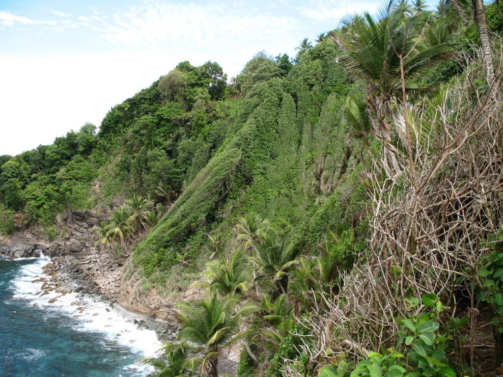 Dominica, Carib territory